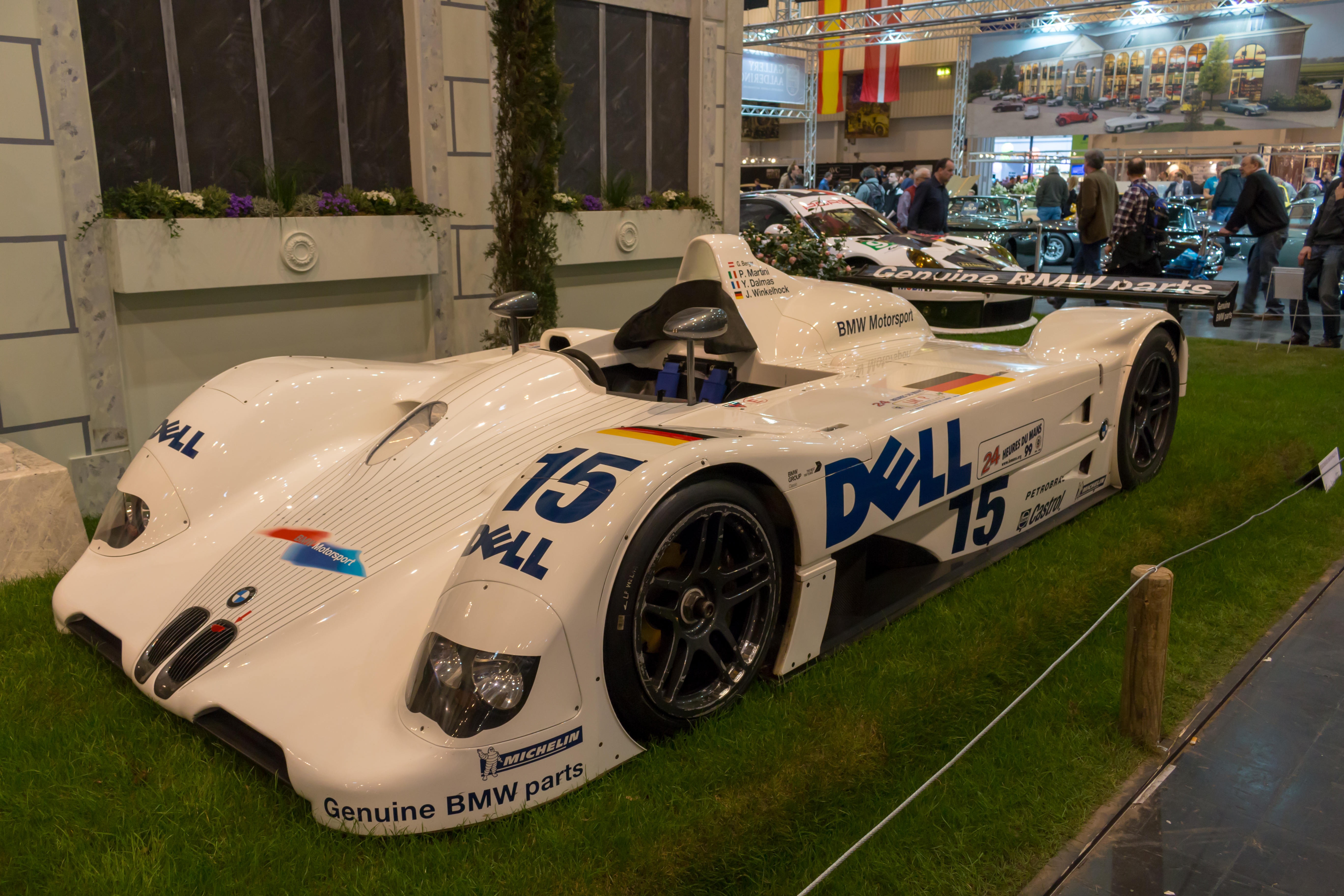 Techno Classica 2018, Essen